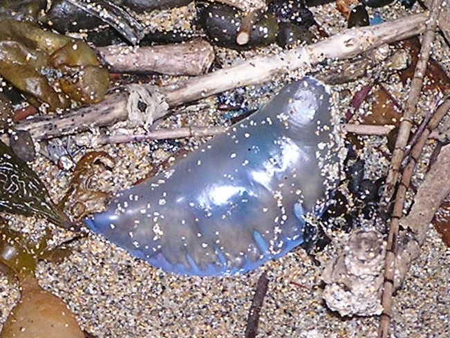 Bluebottle, or Portuguese Man O' War washed ashore at Batemans Bay, New South Wales, Australia.